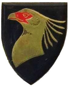 SADF era Philippolis Commando emblem